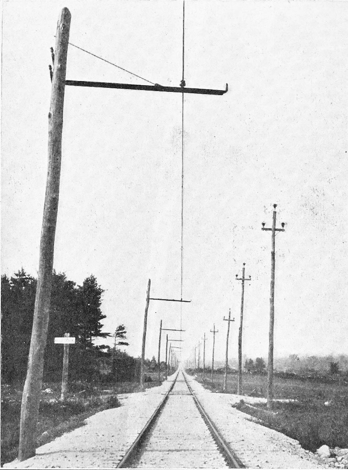 Curved track of the Portland–Lewiston Interurban in 1915